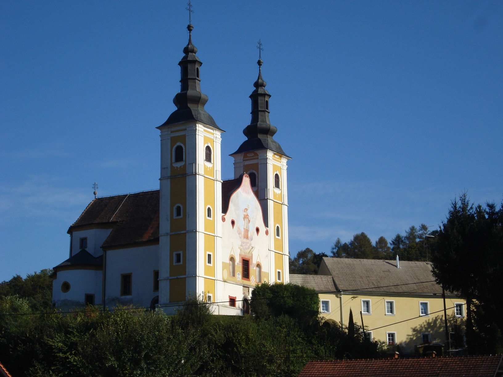 Saint Jerome's Church in Štrigova, Medjimurje County, Croatia - northwest view